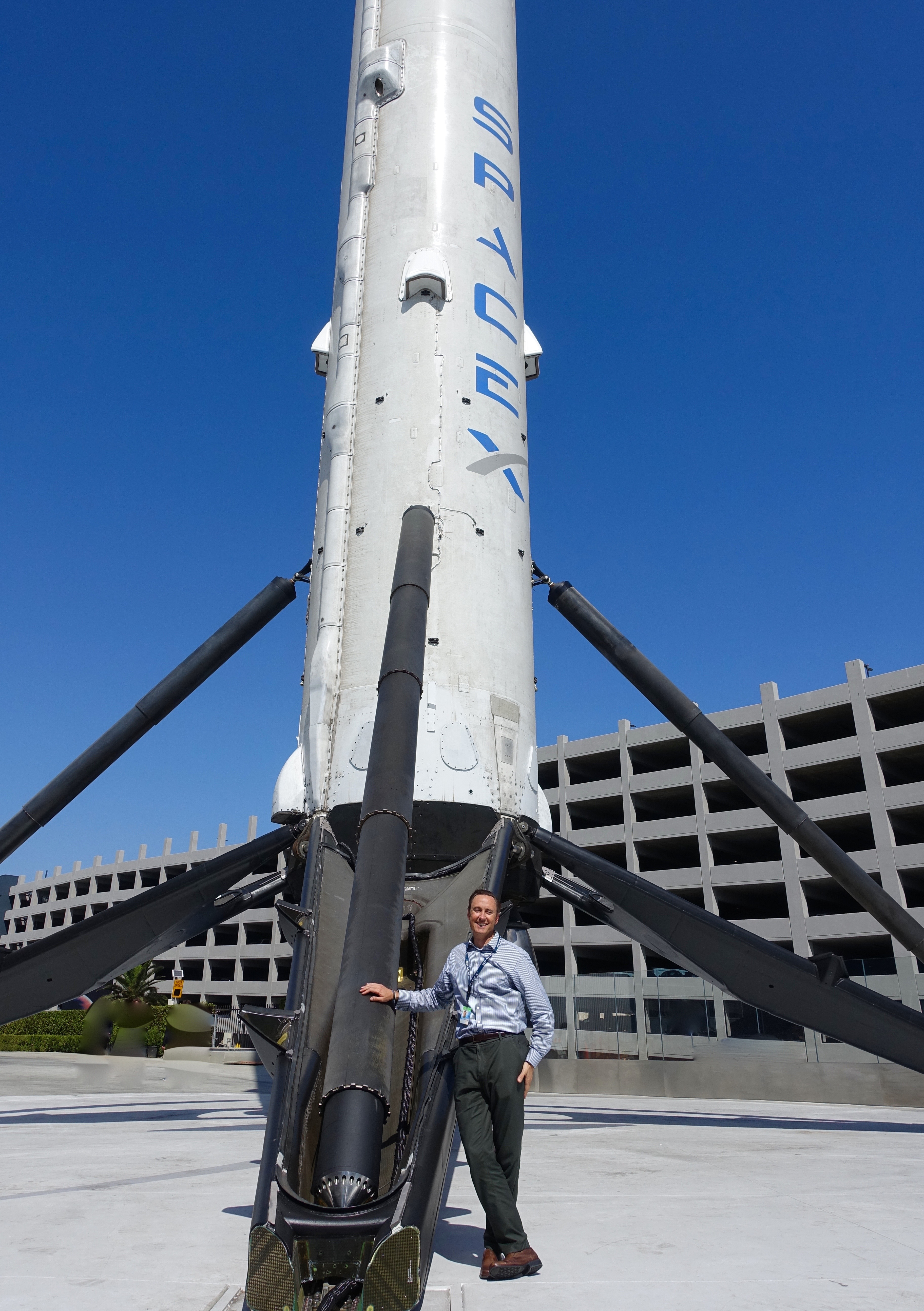 Ok, ok, so now Elon has a better flown space artifact collection at work. :) Exploring the final frontier at SpaceX headquarters and rocket factory in Hawthorne. This is the first booster to successfully return from flight, a historic moment for space exploration. It was recently put on display at Space, and needed FAA approval given the proximity to airports. From SpaceFlight Now: "The 156-foot-tall (47-meter) rocket stage landed at Cape Canaveral after a Dec. 21 launch with 11 Orbcomm communications satellites. The touchdown marked the first time a rocket landed in such a manner after sending a satellite toward orbit. Burning leftover kerosene and liquid oxygen propellants, three of the rocket’s Merlin engines fired to reverse the first stage’s course, erasing the vehicle’s nearly 4,000 mph (6,000-kilometer per hour) downrange velocity as the booster continued to soar higher. Then the rocket began a supersonic descent, and the trio of Merlin engines fired again for a re-entry burn. Finally, a single engine lit seconds before landing to slam on the brakes."